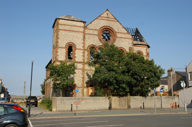 Former Presbyterian church, School Street, Barrow-in-Furness, Cumbria, after being burnt out